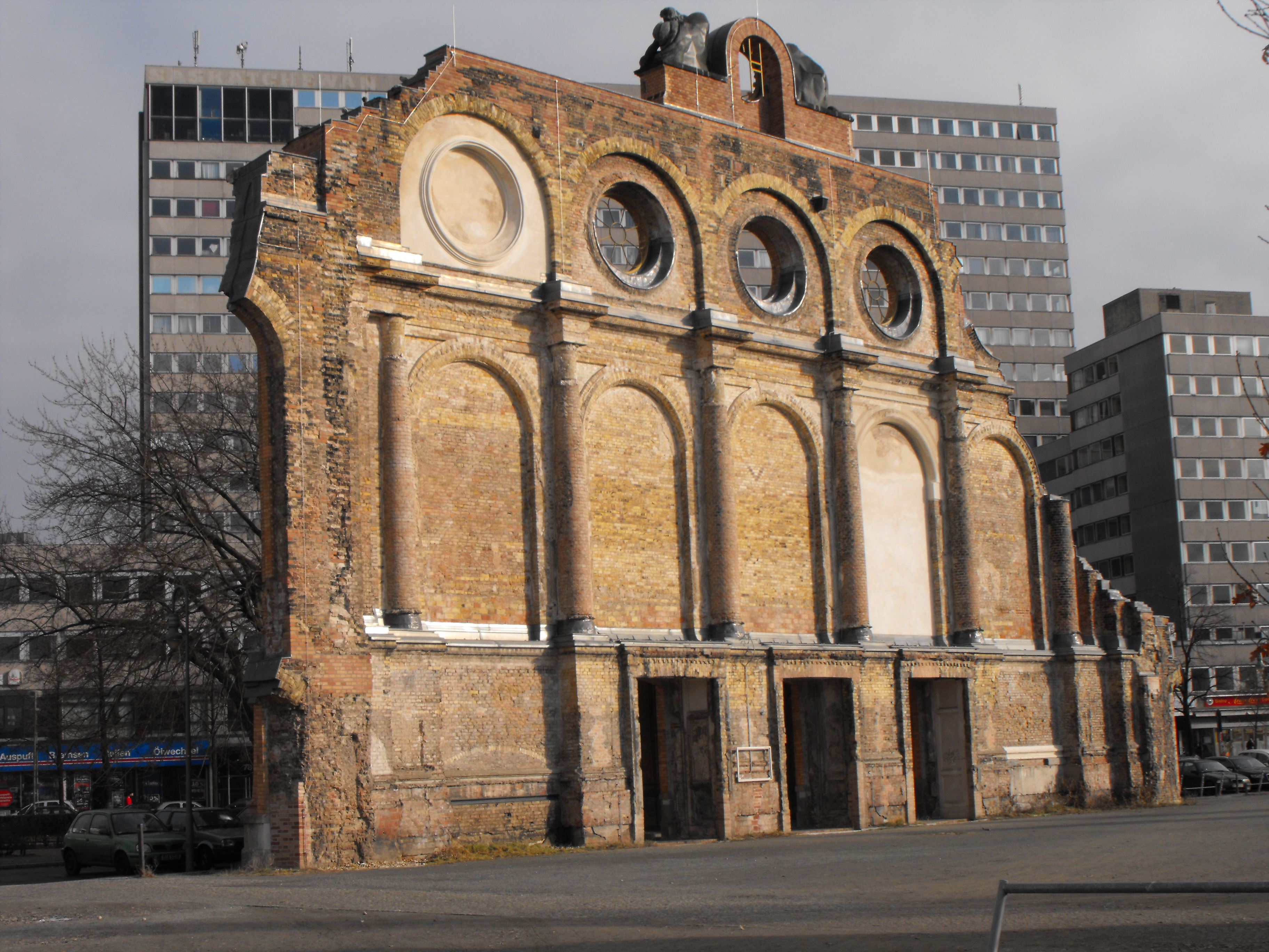 Ahnhalter Bahnhof, Berlin